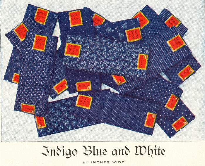 American Printing Company, Fall River, Massachusetts